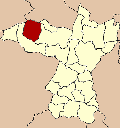 Map of Khon Kaen Province, Thailand, highlighting the district Si Chomphu (อำเภอสีชมพู)